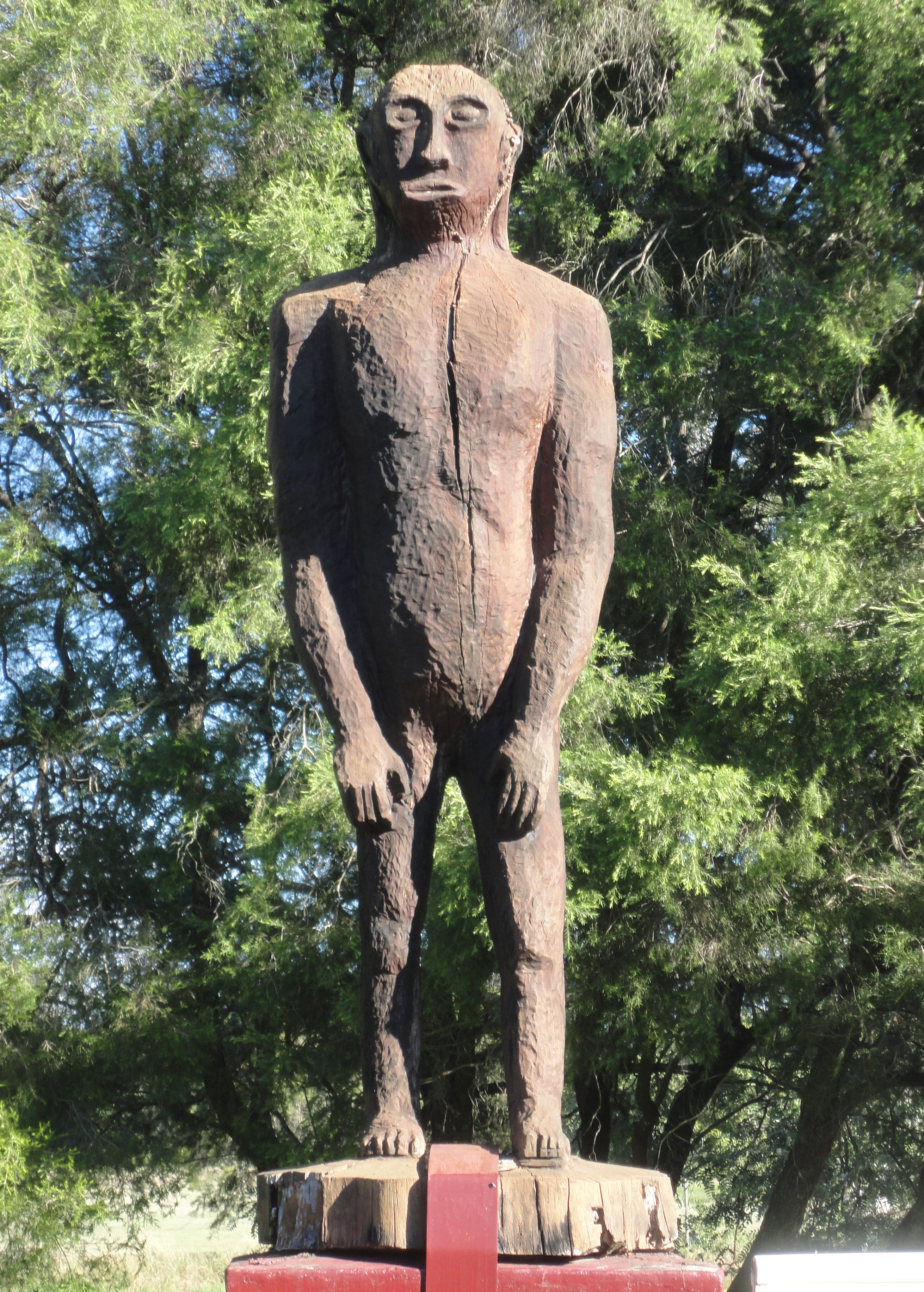 Yowie Statue, Yowie Park, Kilcoy, Queensland. Photo taken on 21 April 2013